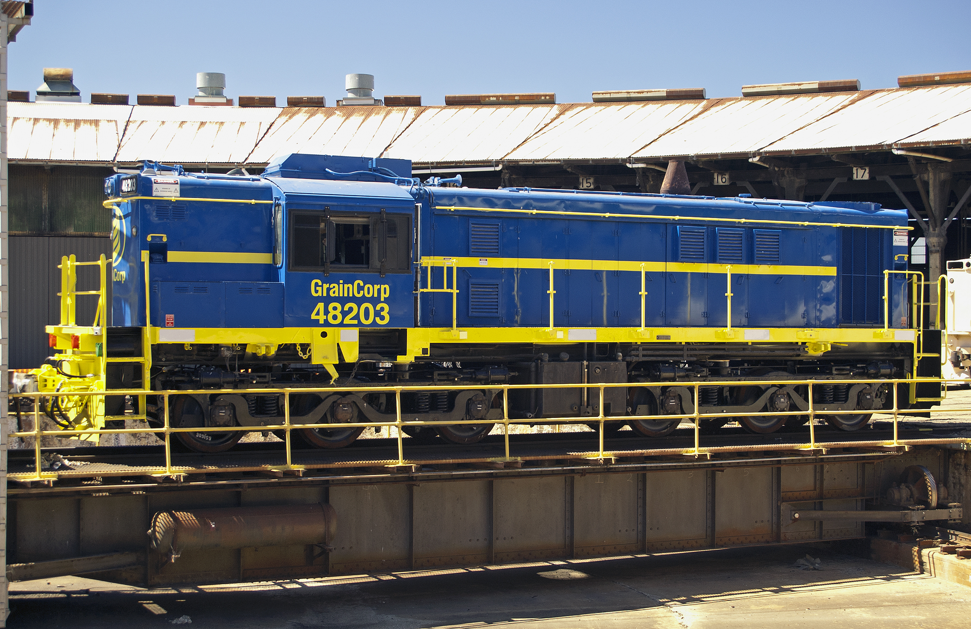 refurbished GrainCorp (48203) 48 class loco at the Junee Roundhouse.